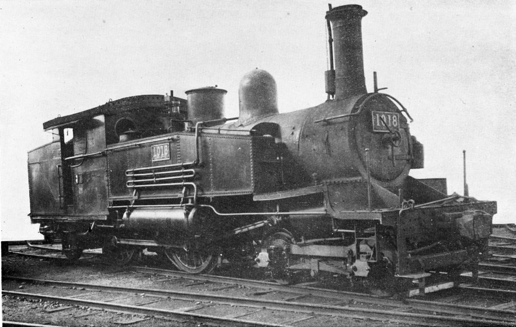 Picture of JGR's 1000 type (II) steam locomotive